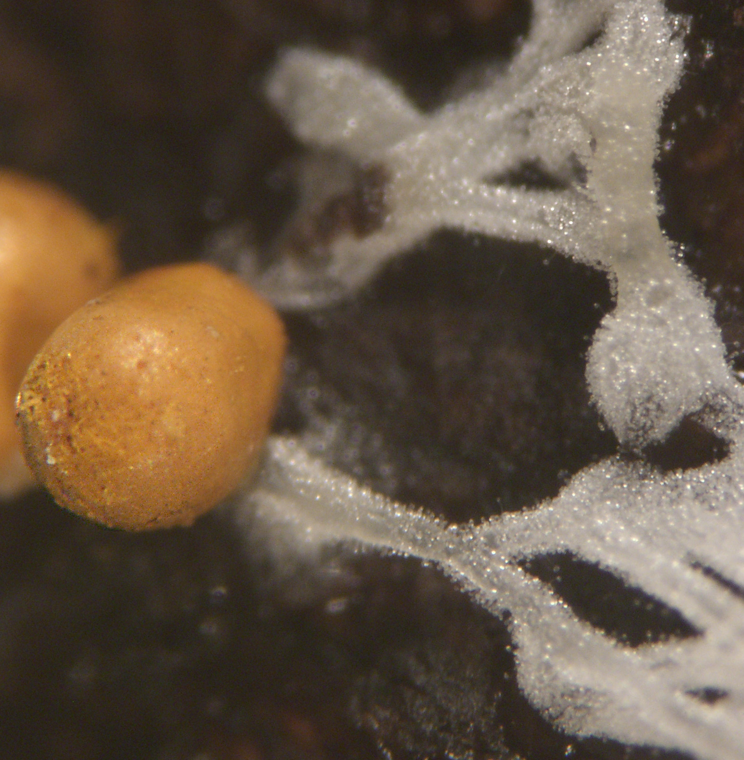 A species of the family Trichiidae, maybe Trichia decipiens, and Ceratiomyxa fruticulosa. Foto taken in the Woblitz-region. See geotag. Determined by Denis Barthel and Toffel